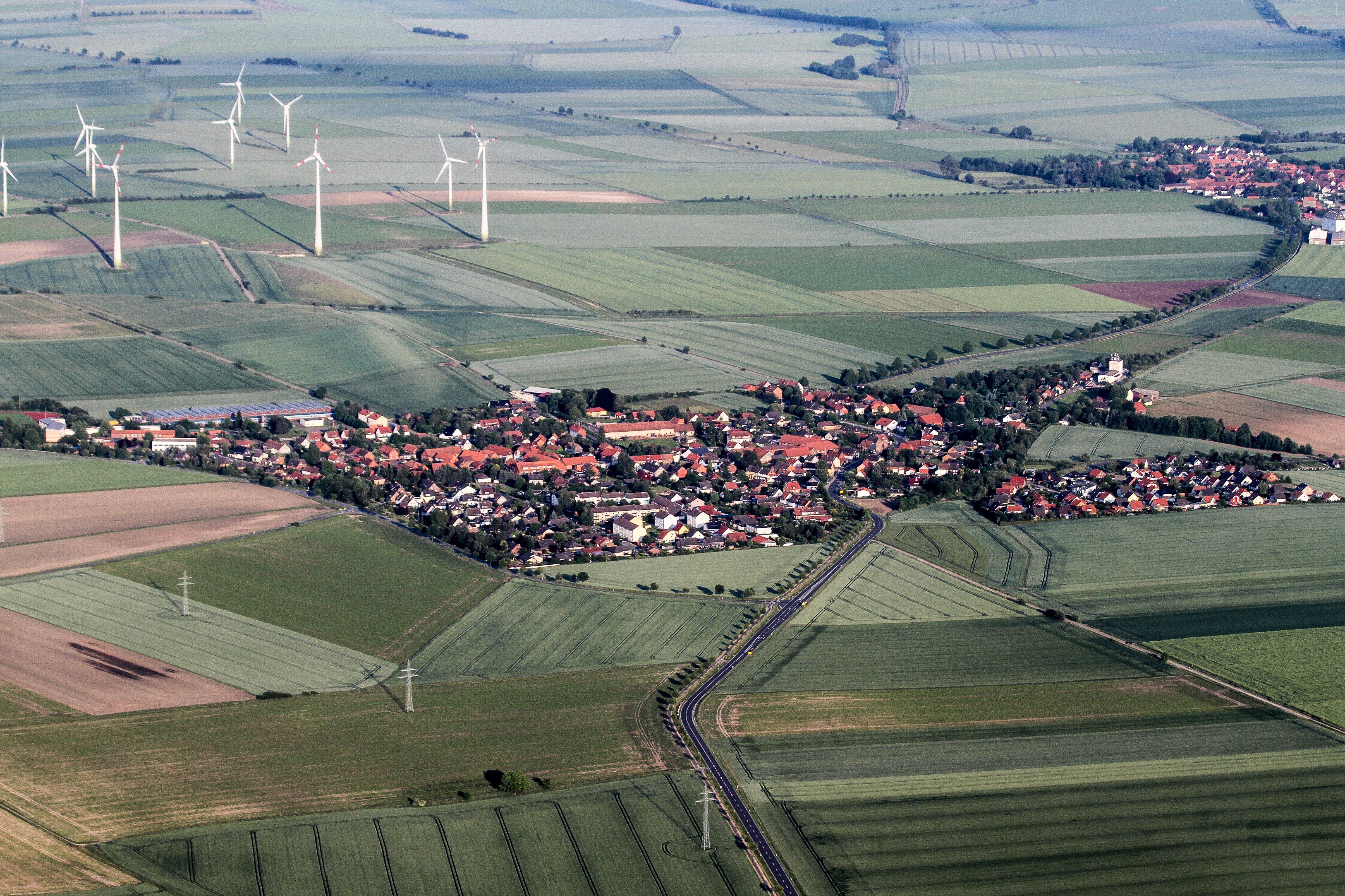 Remlingen, Lower Saxony from an airplan